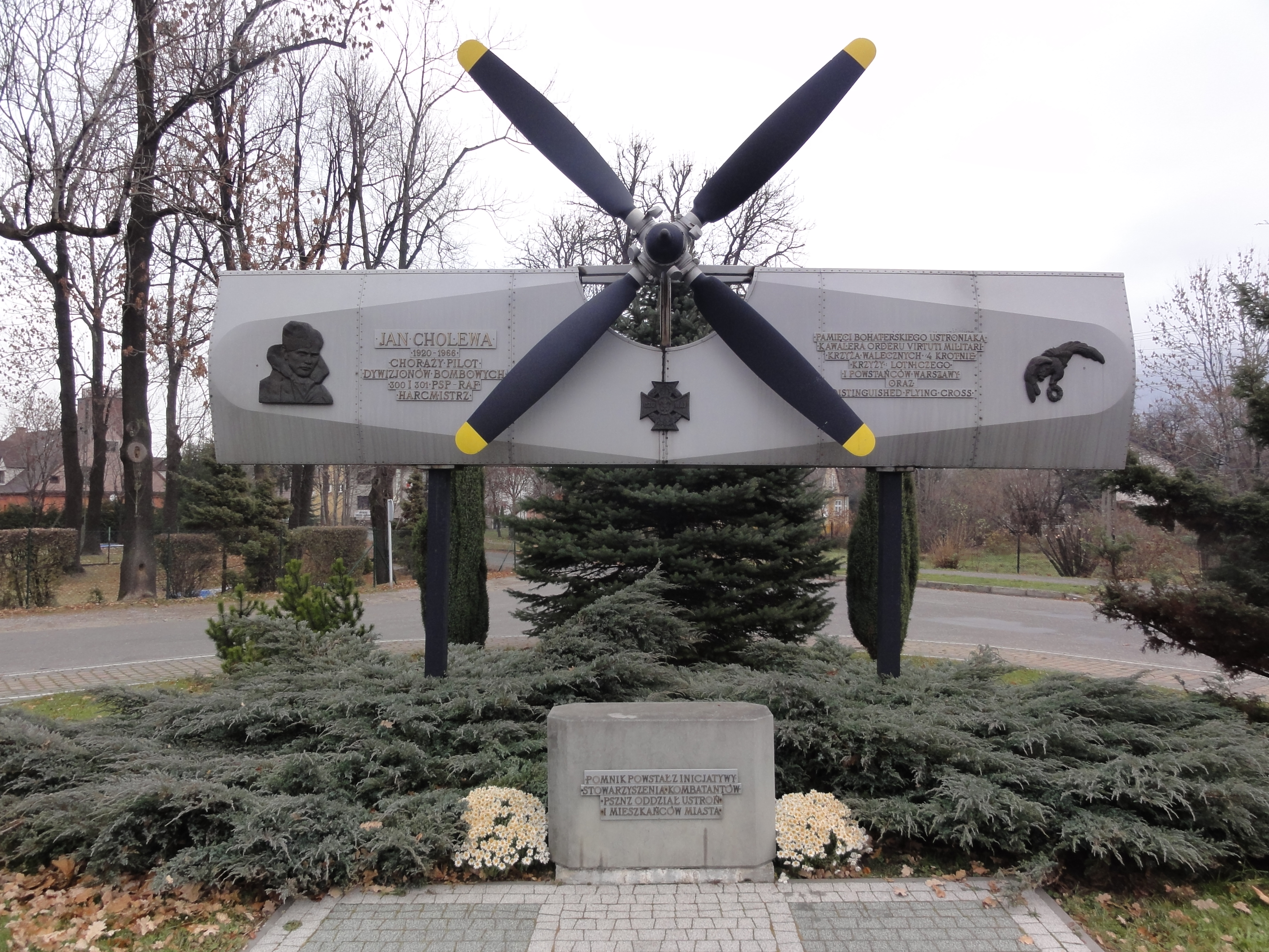 Monument of Jan Cholewa in Ustroń